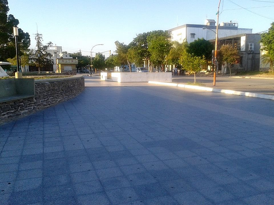 The Center of the Recreo City